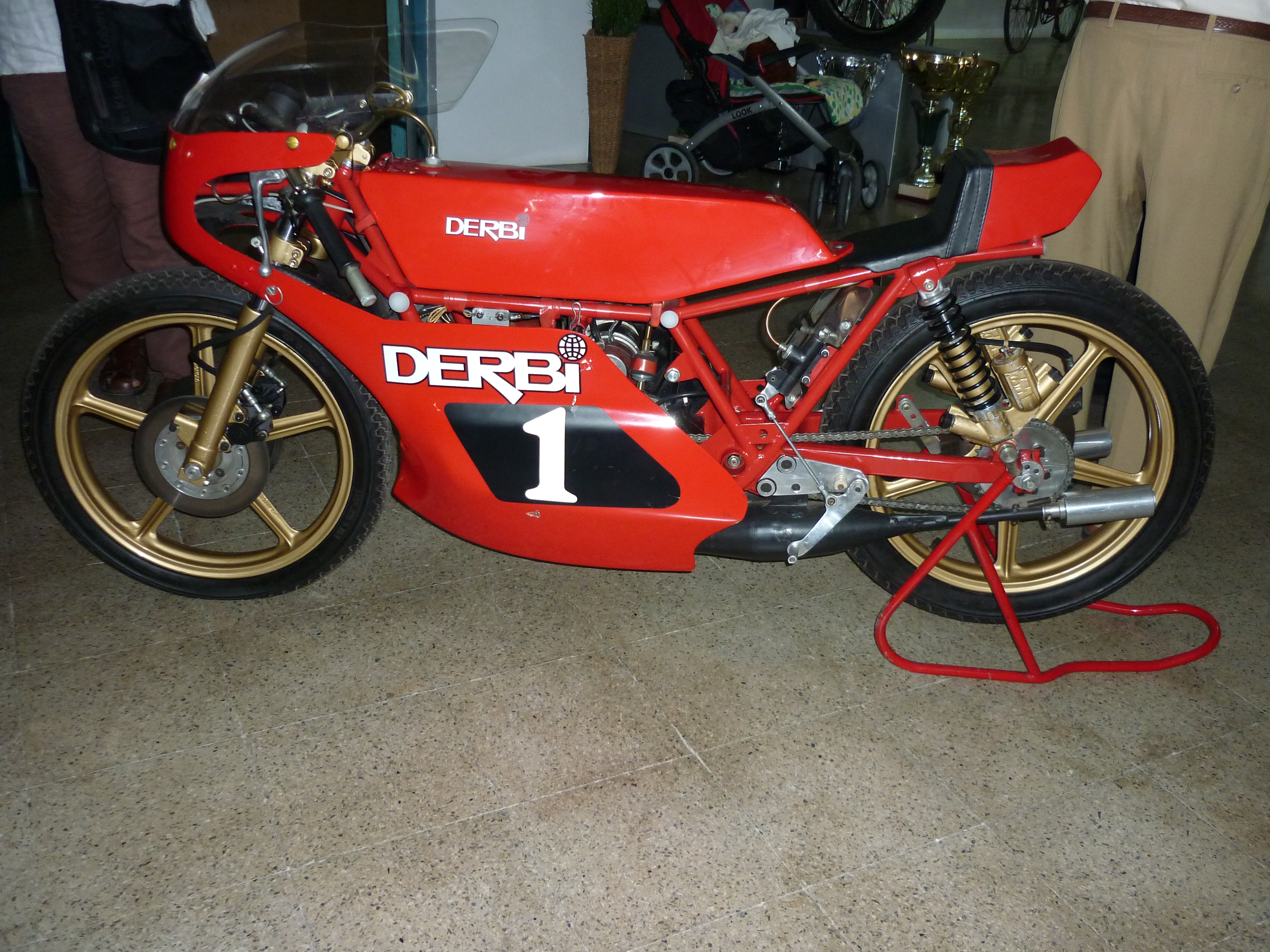 Derbi GP 125cc 1972. World Champion in 1971 & 1972 ridden by Angel Nieto.